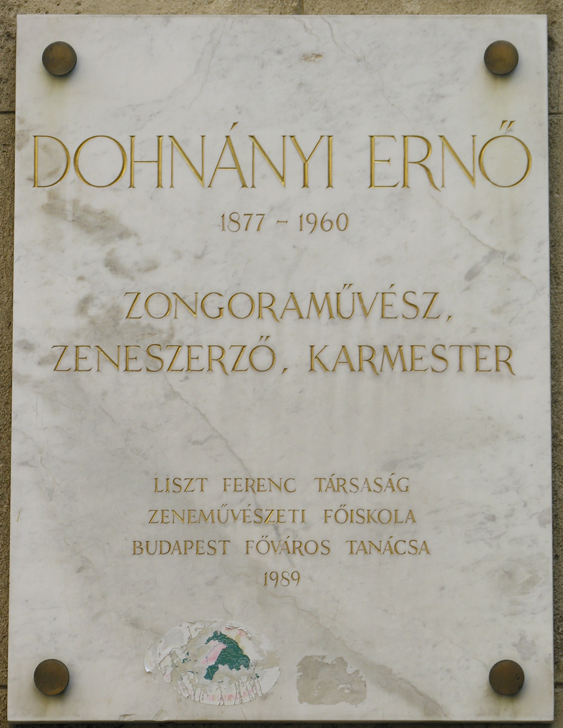 Ernő Dohnányi commemorative plaque in Budapest District VI, Dohnányi Street No 1